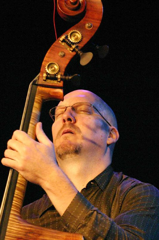 American jazz bassist Scott Colley